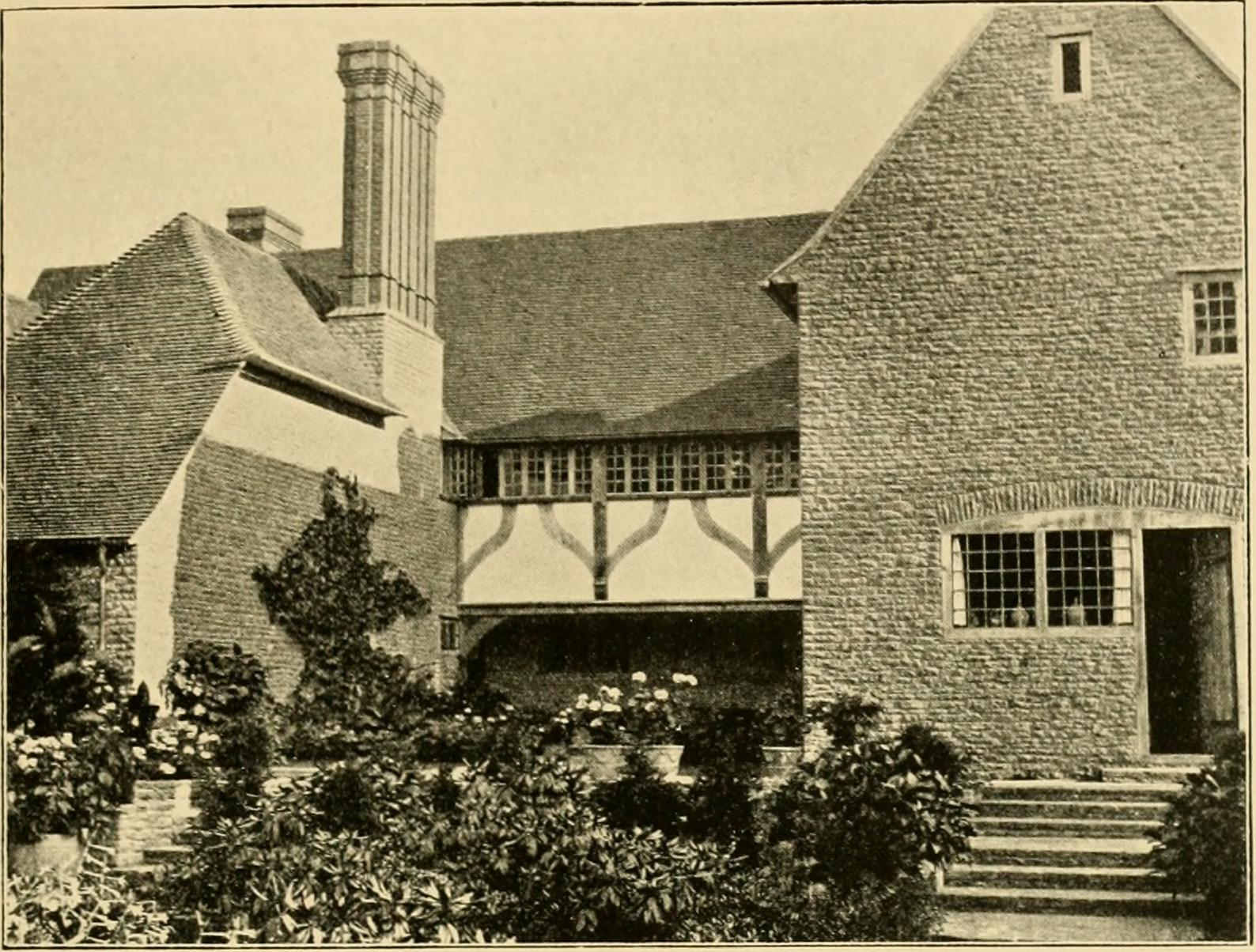 illustration from the book "Home and garden; notes and thoughts, practical and critical, of a worker in both" (1900).